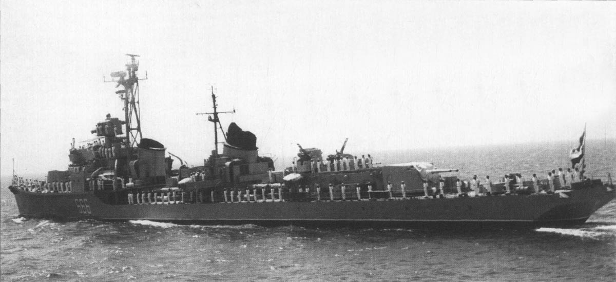 The Egyptian project 30-bis destroyer El-Zafer (Al-Zaffer, former the Soviet destroyer Smetlivyi).